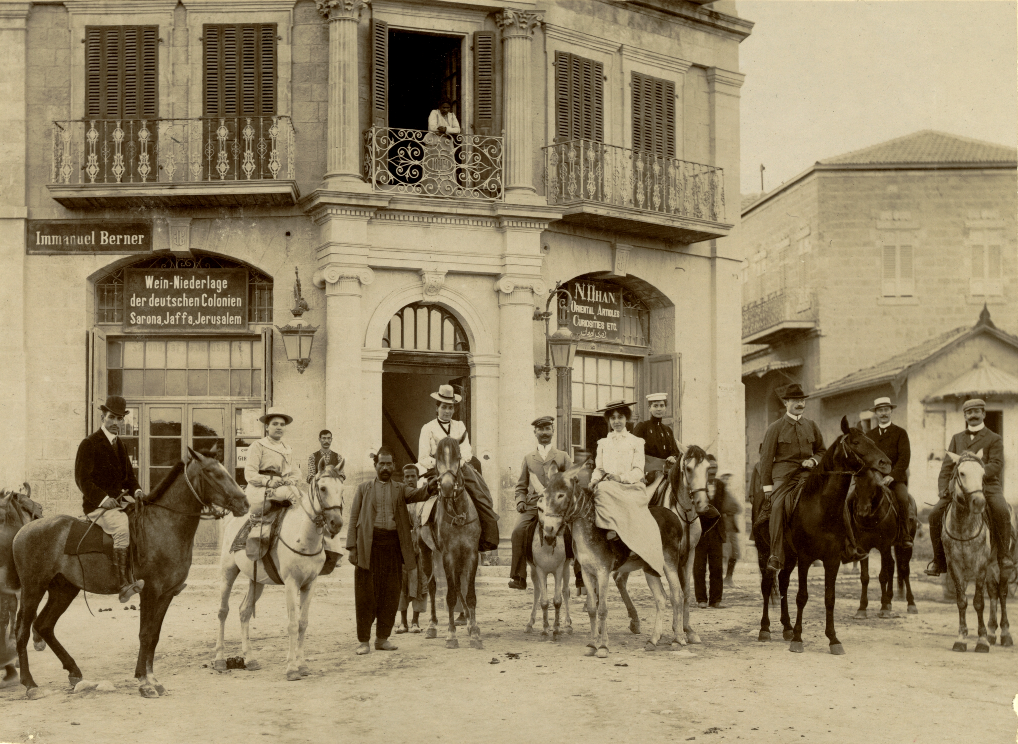 Riding party, 1903. the Fast Hotel. LC-DIG-ppmsca-15830-00001 (digital file from original on page 1, no. 1)